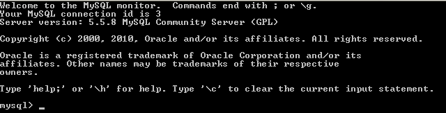 MySQL default command line page in windows.